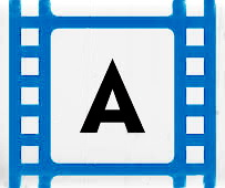 Allmovie square logo, derivated from